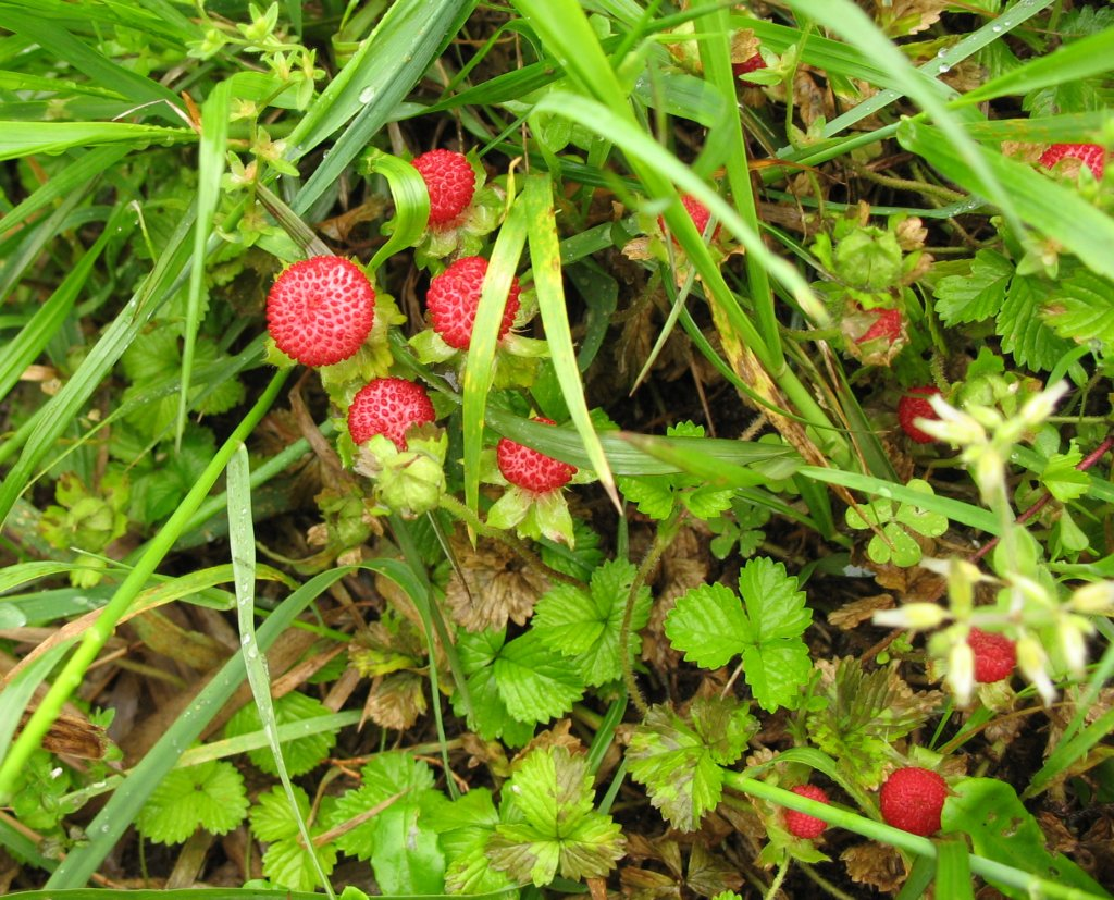 Photograph of Potentilla indica (syn. Duchesnea chrysantha),taken in Machida city, Tokyo, Japan.